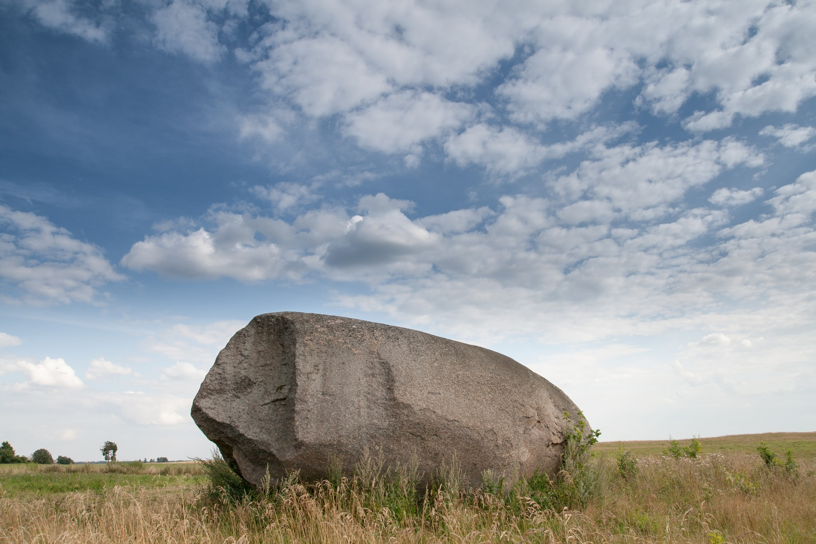 Kriauciaus stone